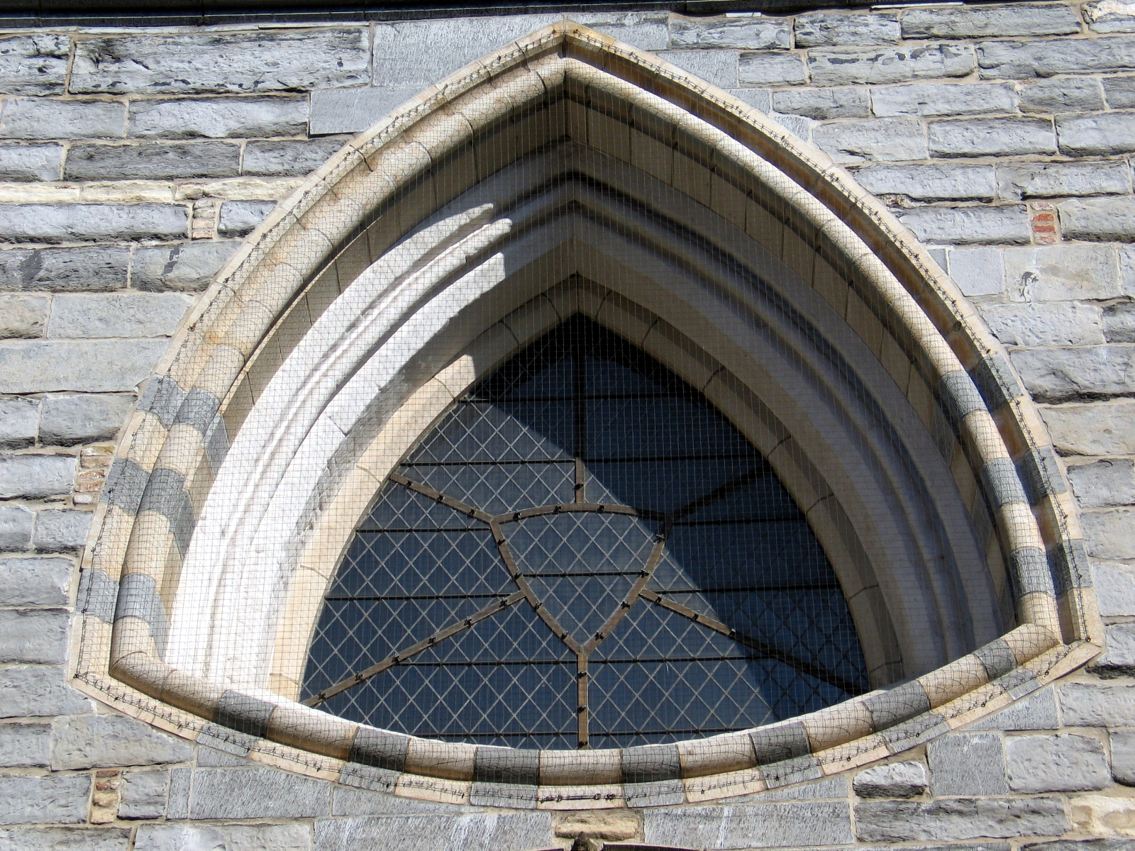 Reuleaux triangle shaped window of Onze-Lieve-Vrouwekerk, Bruges